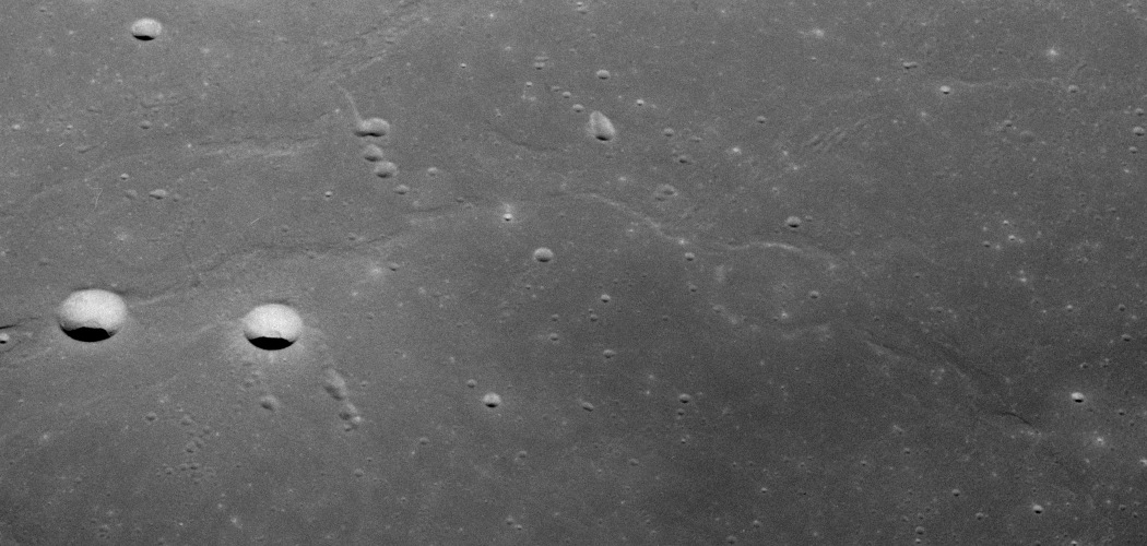 Oblique view of Dorsum Cayeux, Mare Fecunditatis, on the moon. The two craters at left are Taruntius P (left) and Taruntius K (right). The dorsum is a subtle ridge trending from the craters to the right (north). The brightness and contrast are altered to bring out the detail of the dorsum.